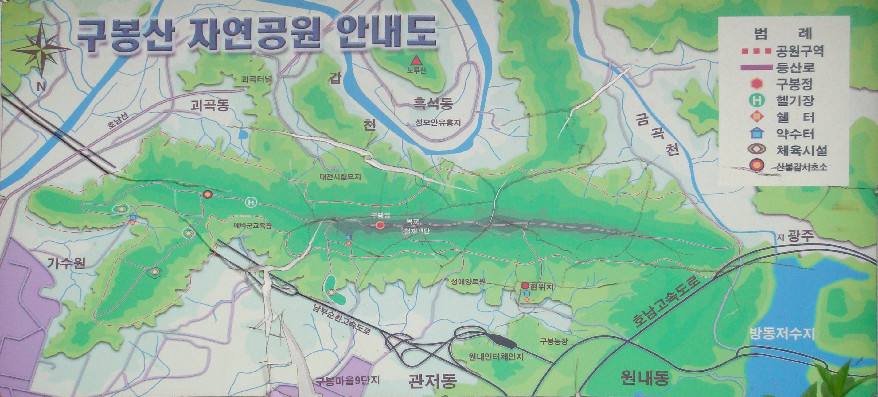 Northdown map of Gubongsan park near by Gubong farm.